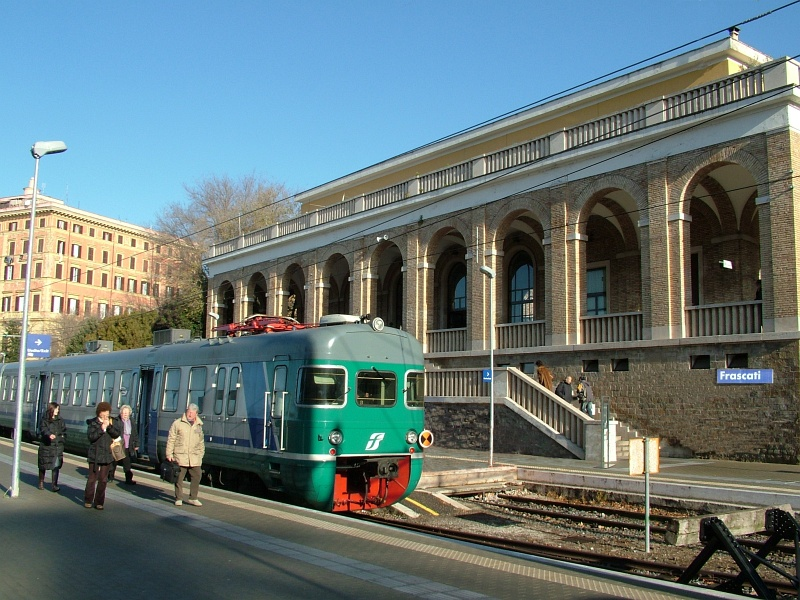 Frascati, Rail station.